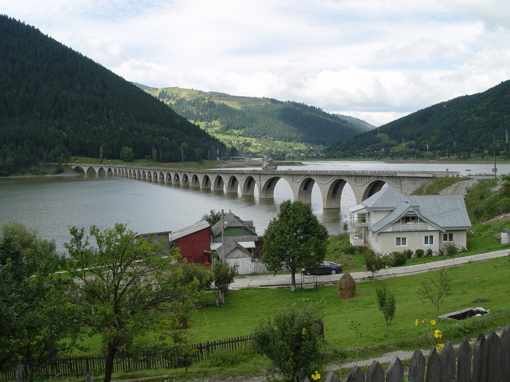 Viaduct over the Bicaz, Poiana Largului, Poiana Teiului, Neamț. Made by me, durin the summer end vacantion. Sptember 2006. I use a Sony F 717 Digital Camera. You can use it as you wish.